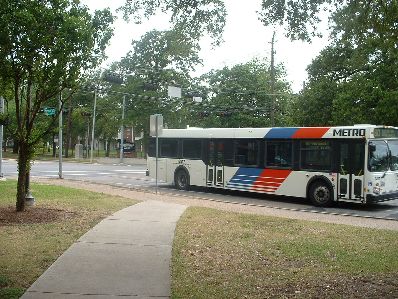 A Houston METRO New Flyer D40LF Bus on Cullen Boulevard at the University of Houston